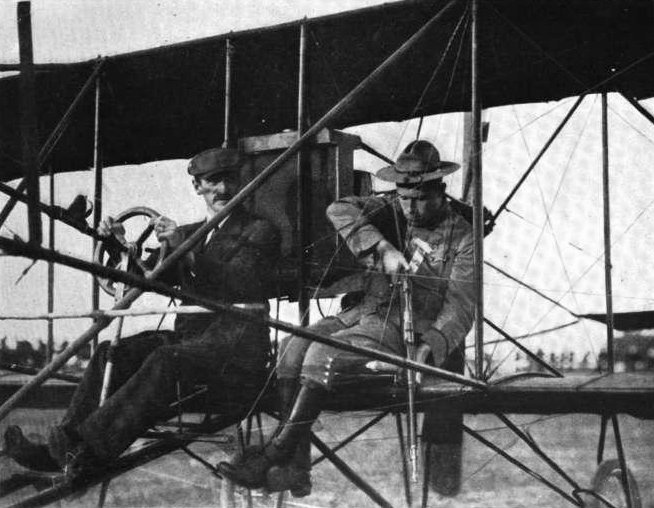 Lieutenant Jacob Fickel experimenting in shooting from a plane